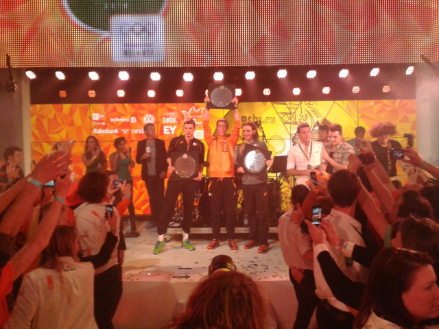 Men's 10000m, 2014 Winter Olympics, Honoring in the Holland Heineken House